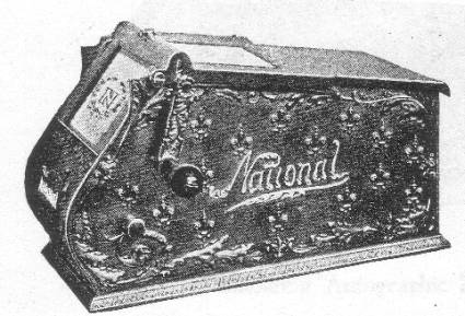 National Cash Register Co. No. 223 Manifolding Autographic Register.